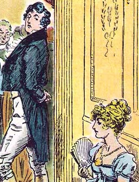 Detail of a C. E. Brock illustration for the 1895 edition of Jane Austen's novel Pride and Prejudice (Chapter 3)